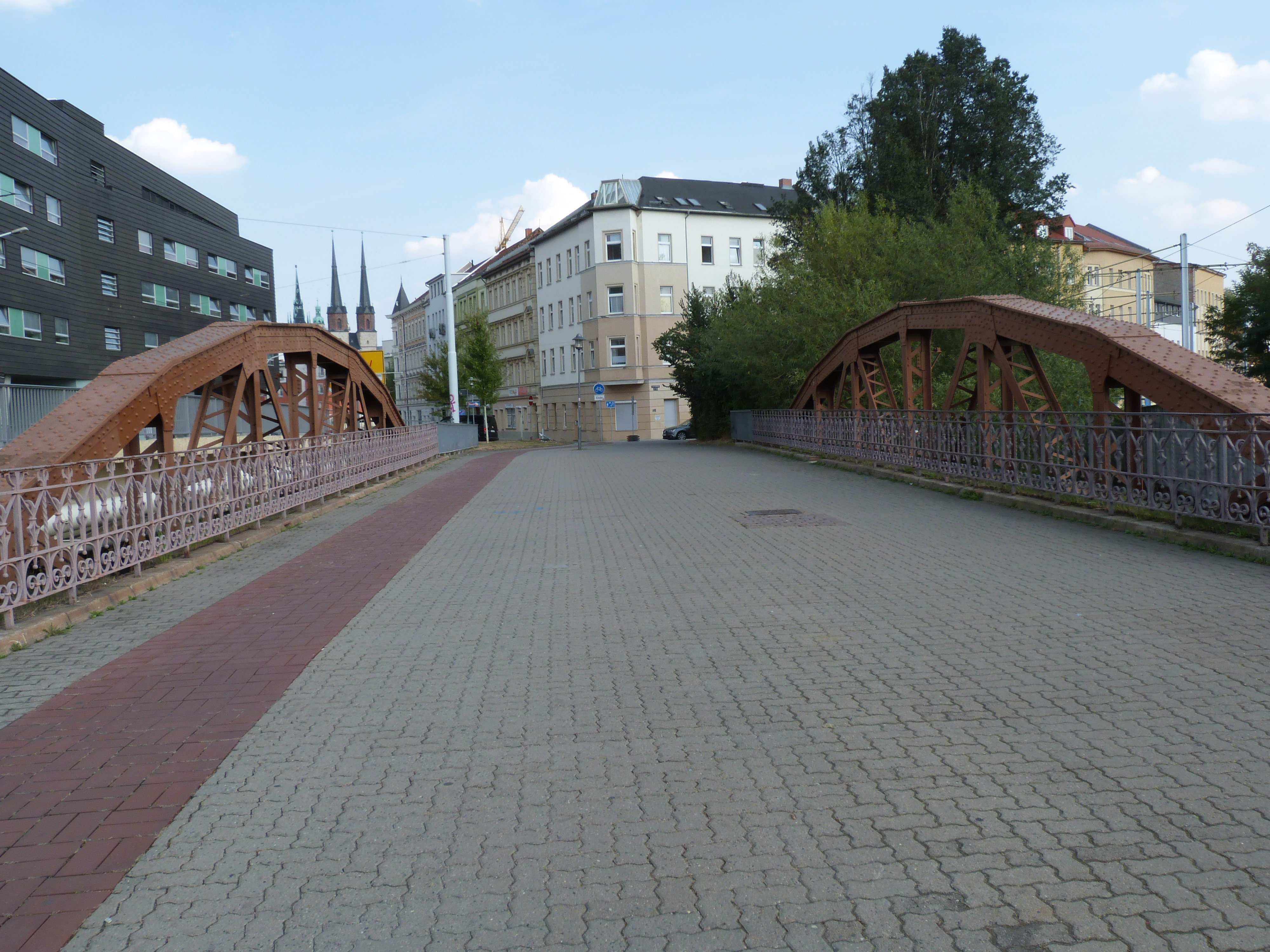 Bridge Schieferbrücke in halle (Saale), Mansfelder Strasse